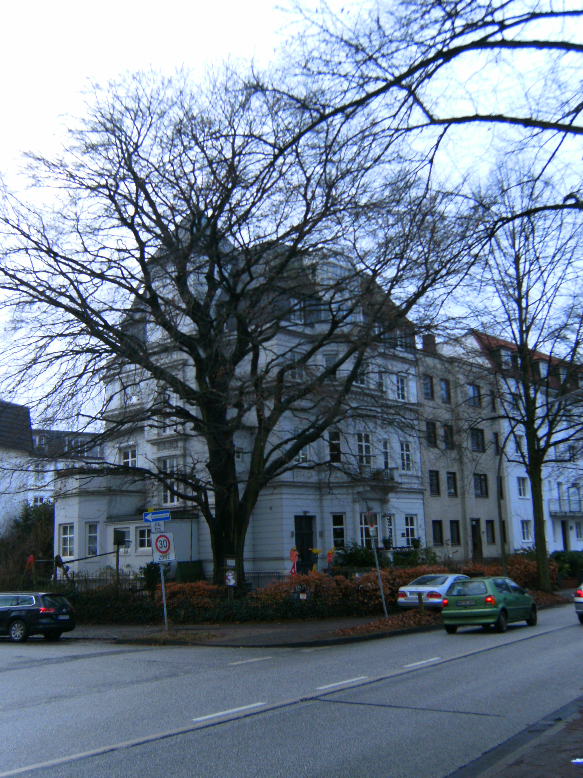 A beech tree in Hamburg near Kuhmühlenteich at Eilenau/Lessingstraße called "Maiboom'sche Liebesbuche" where secret whishes and hopes of love are posted. Without leaves, in winter. Board for wishes of love.